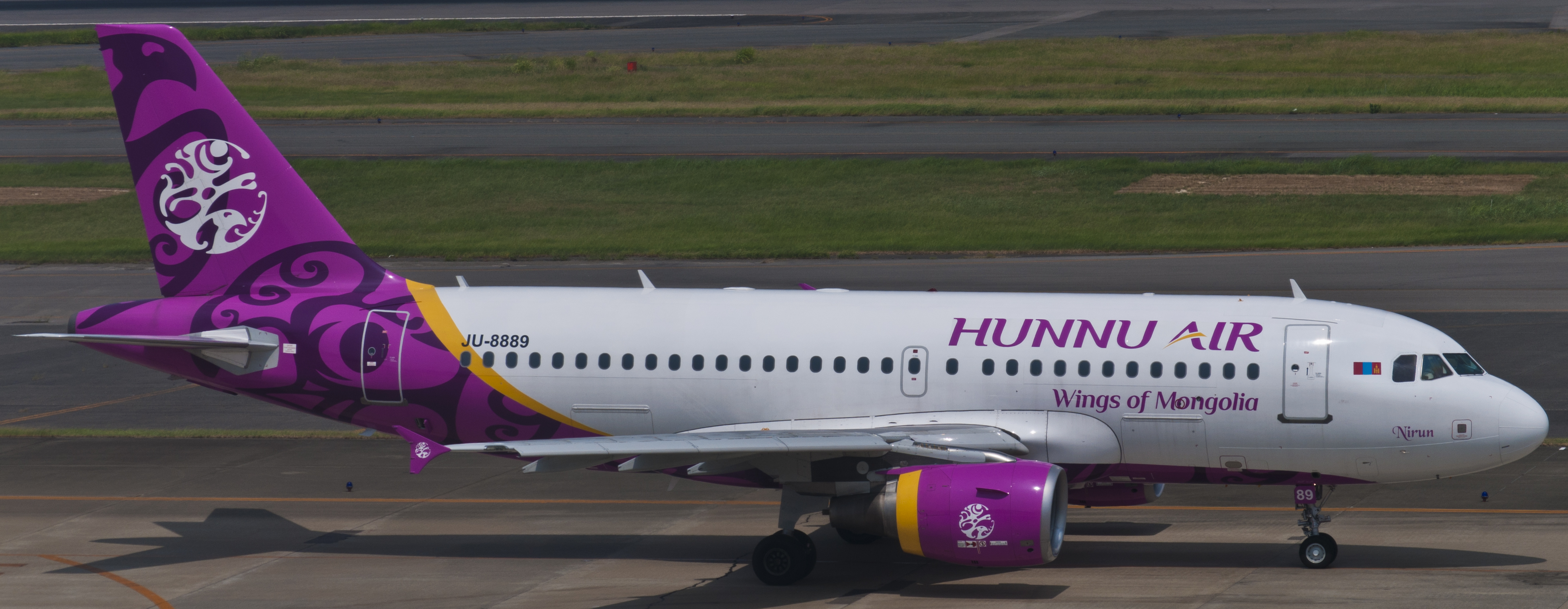 Hunnu Air's Airbus A319 (JU-8889) at Fukuoka Airport.